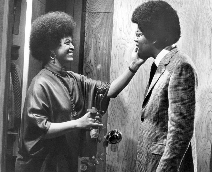 Photo of Clarence Williams III as Linc Hayes and his wife at the time, actress Gloria Foster, who had a guest star role as a blind friend of Linc's.